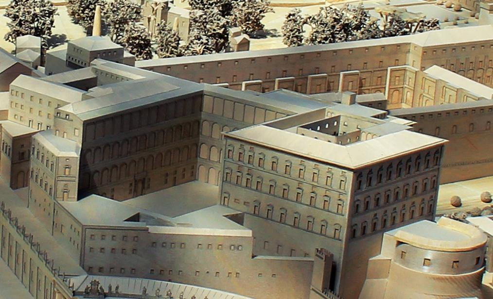 Section of a model of Vatican City in Vatican Museums